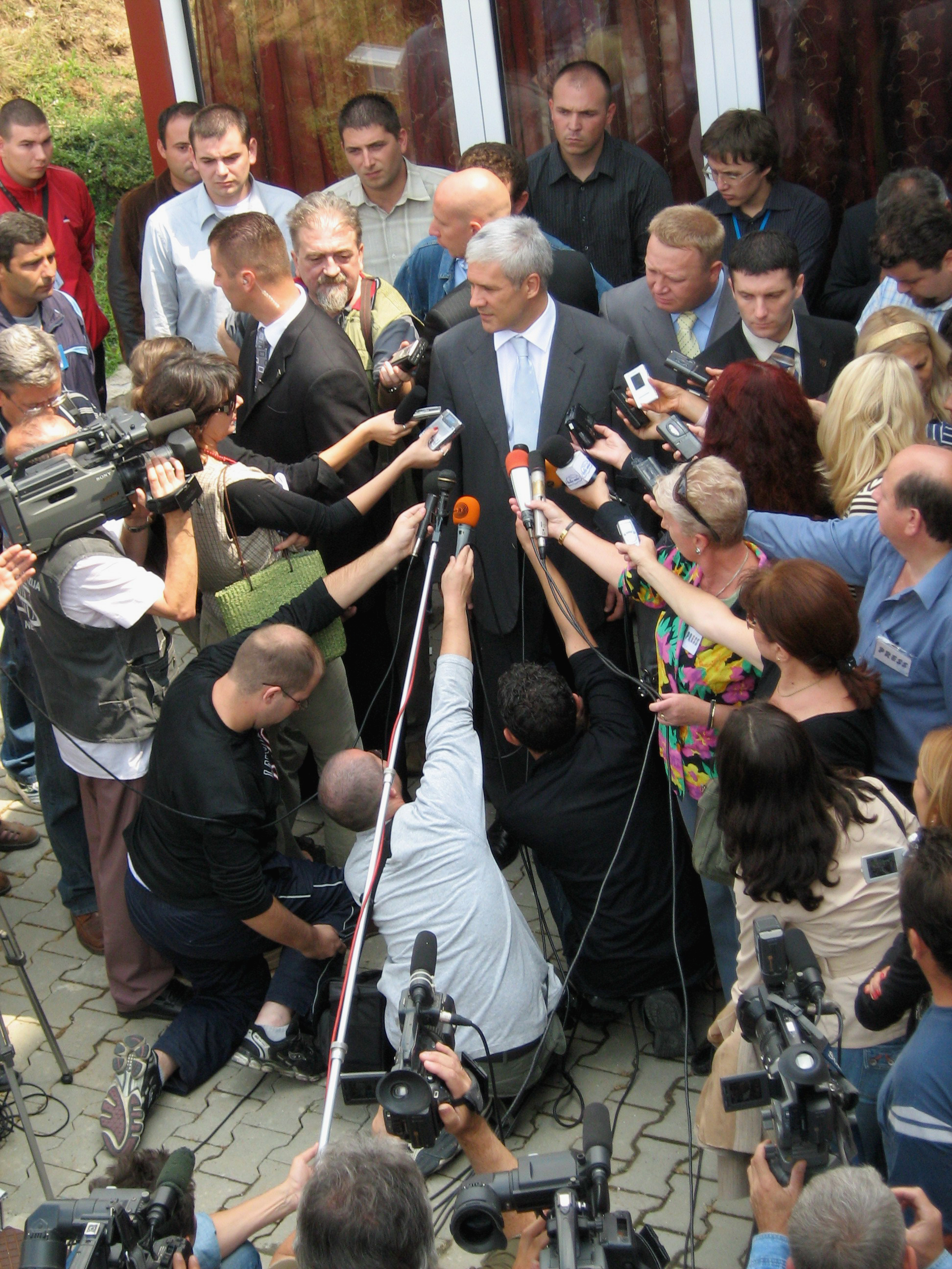 Boris Tadić, at the time President of the Republic of Serbia, at the opening ceremony of the monument to Zoran Djindjić in Prokuplje